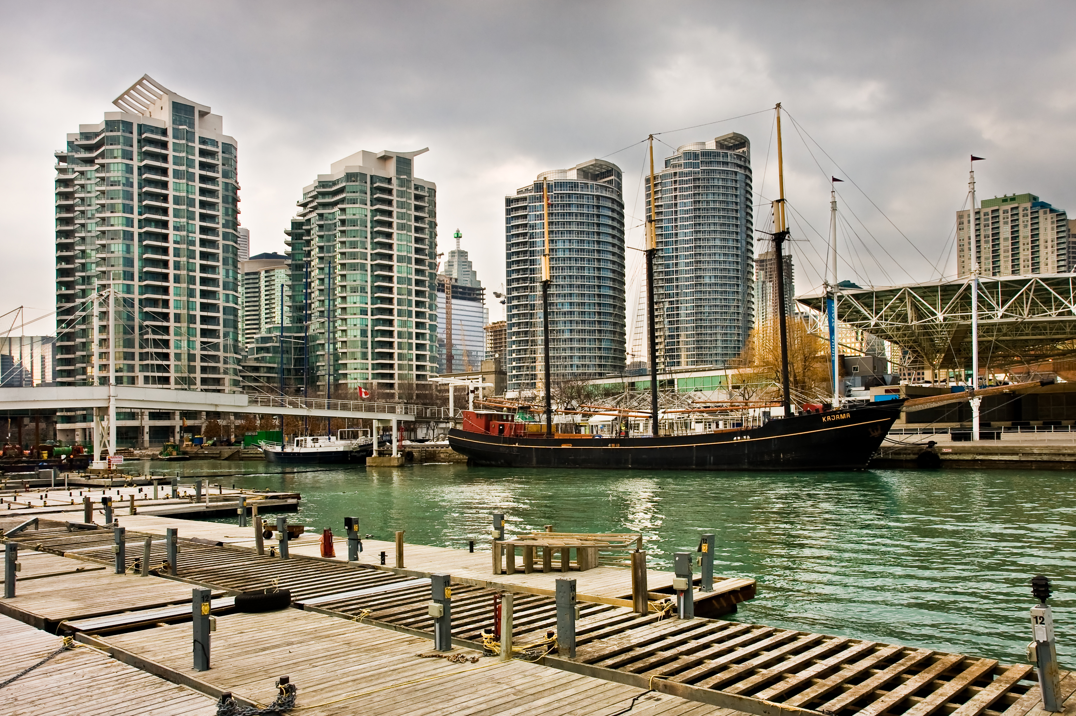 The 'Kajana' docked at Toronto's Harbourfront. I've always wanted to see a pirate ship.... I think this is as close as I will get to one.... :(